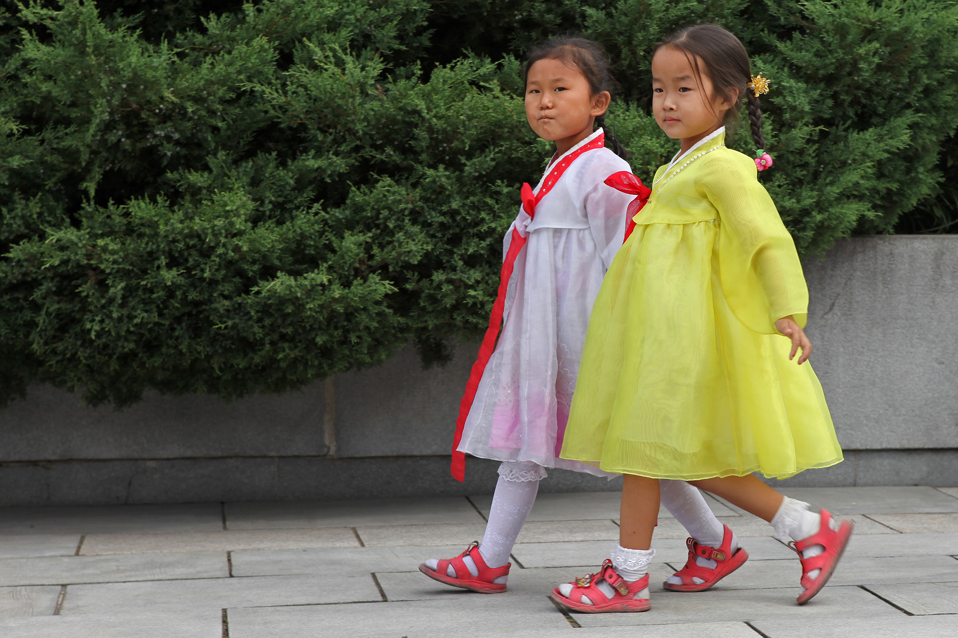 These little girls already bowed to big bronze statue of Kim-Jong-Il and heading to another one.